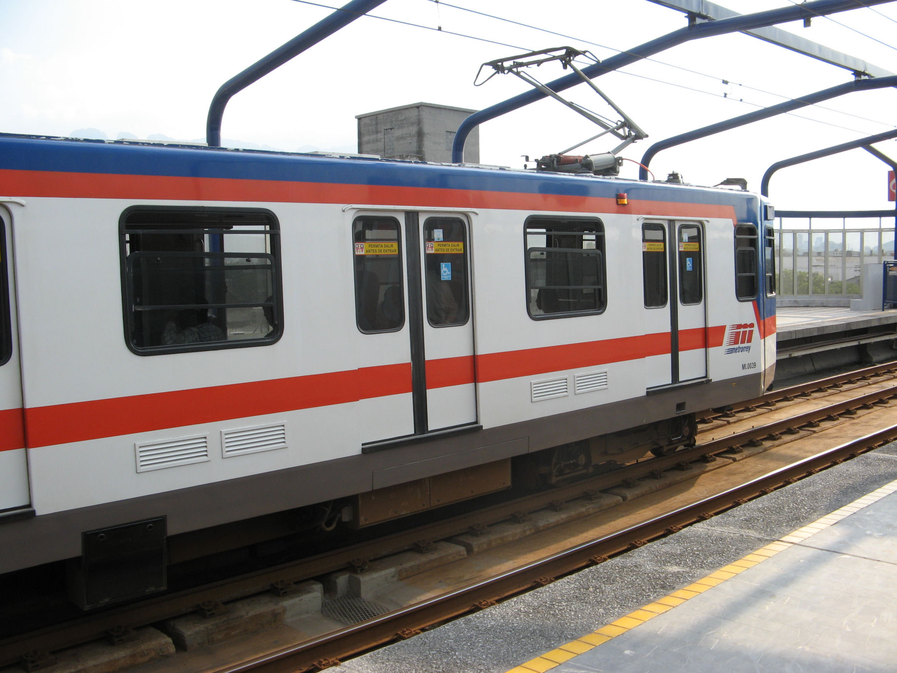 Metro in Del Golfo Station - Line 1 of the Monterrey Metro. Car 0039 was built by Bombardier-Concarril, which replaced Concarril in 1992.